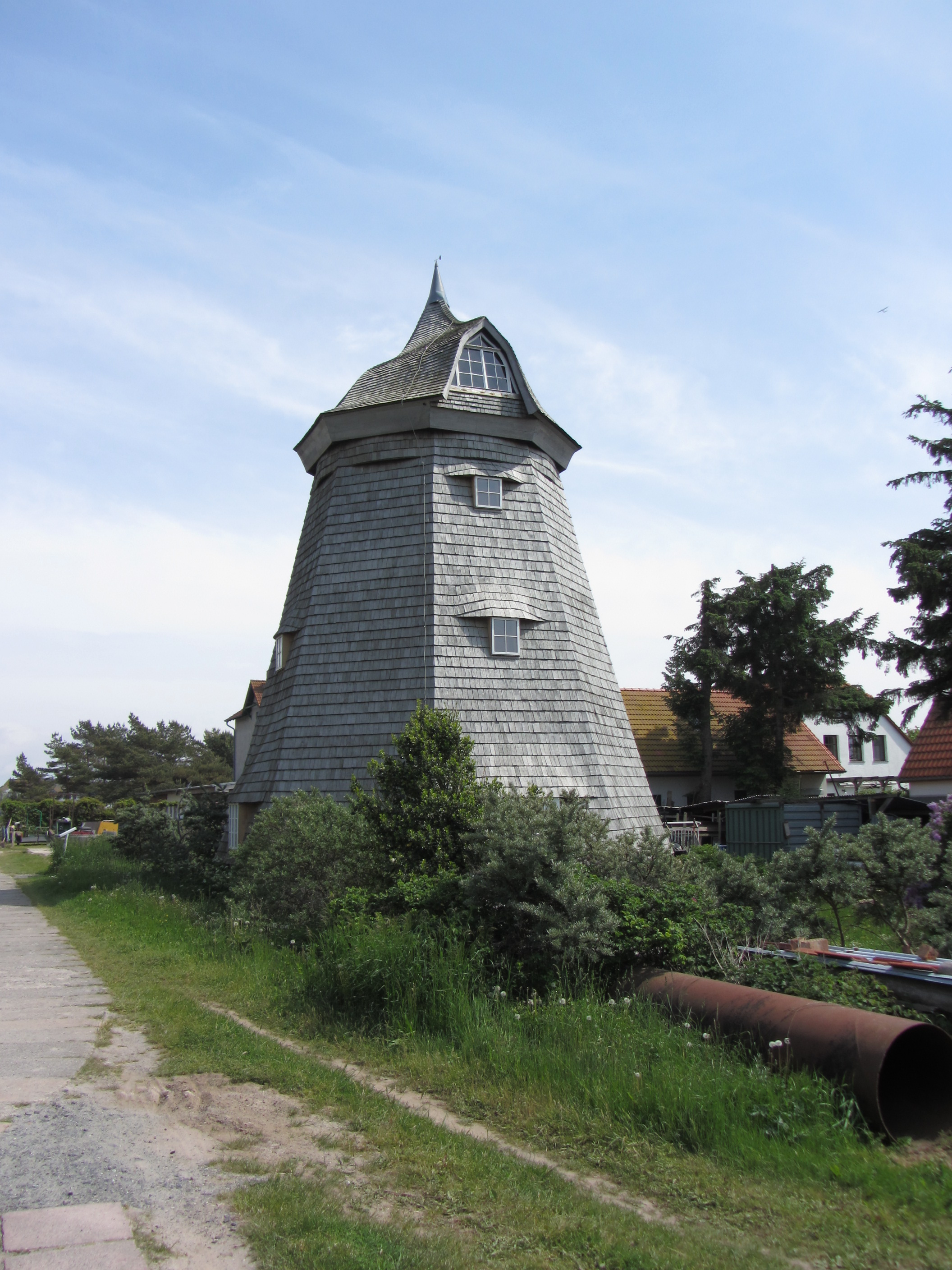 Former windmill in Vitte (Hiddensee), district Vorpommern-Rügen, Mecklenburg-Vorpommern, Germany